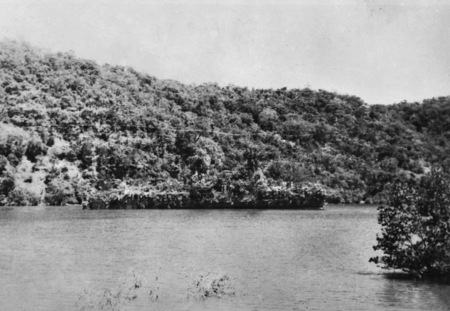 HNLMS (not HRMS at that time!) Abraham Crijnssen disguised as a tropical island.